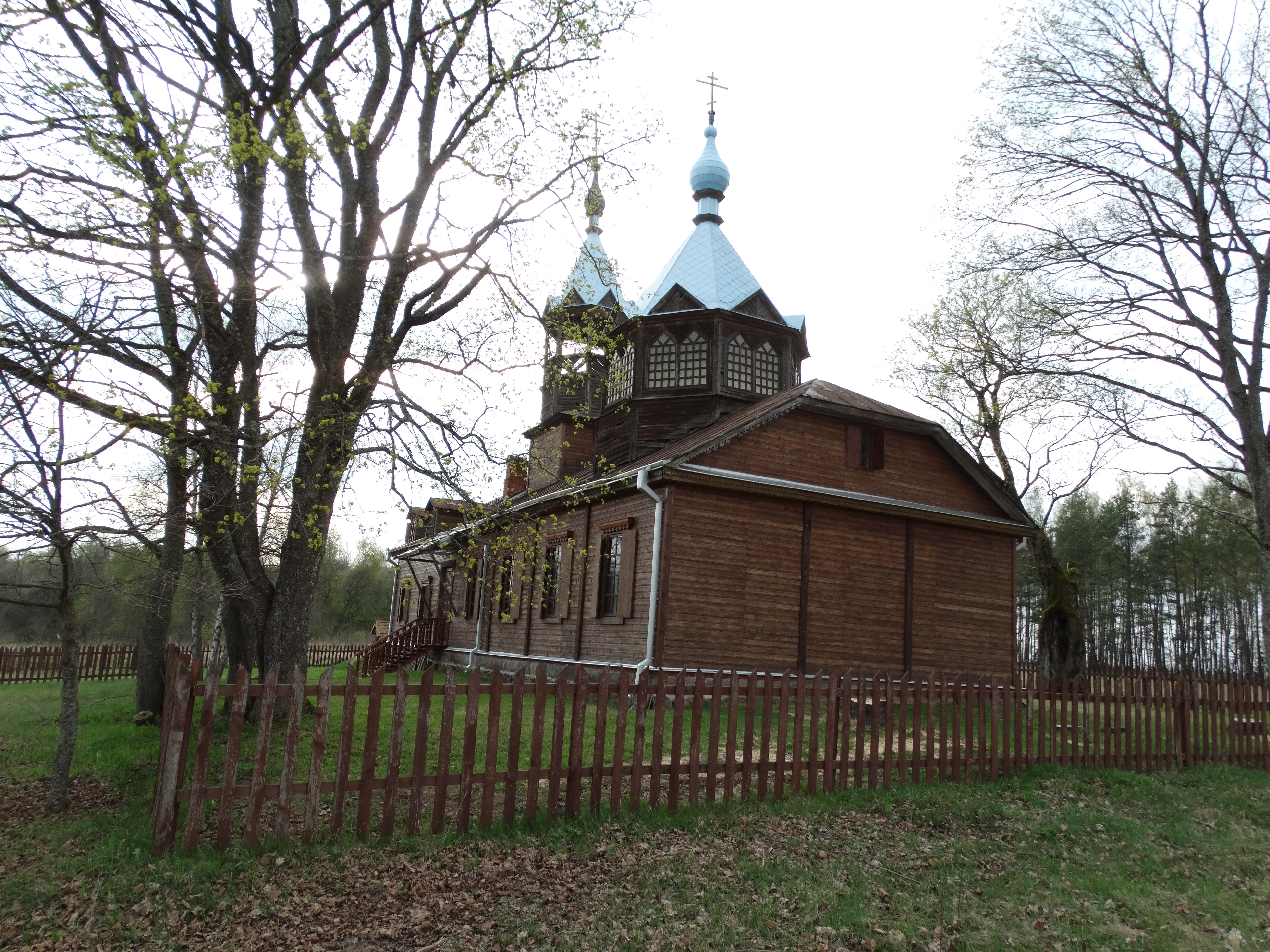 Orthodox Church of Old Believers in Perelozai, Jonava District, Lithuania